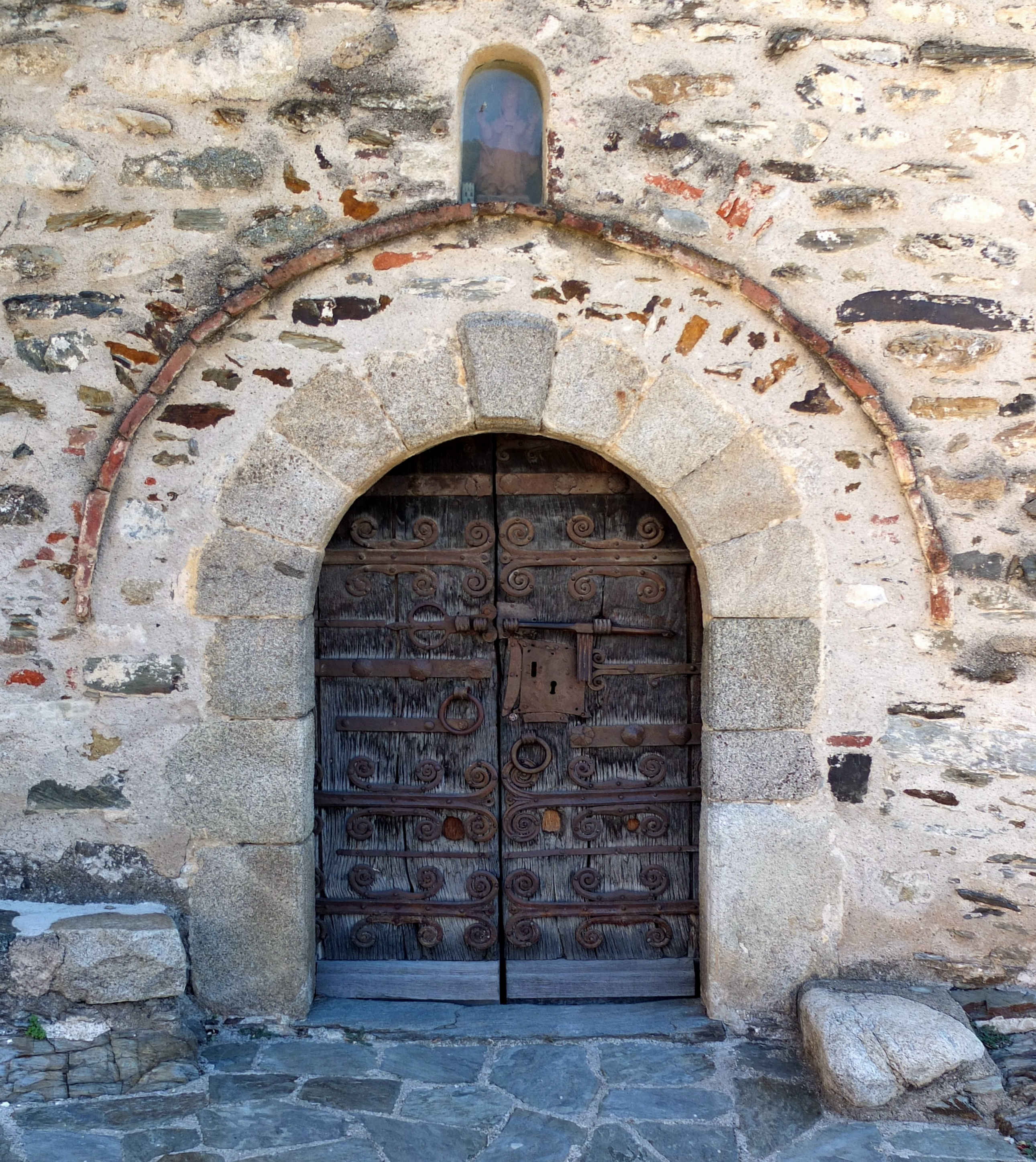 Portal of "Église Saint-Saturnin de Boule-d'Amont", Roussillon, France. Ministère de la Culture (France): Base Mémoire: AP44L05194